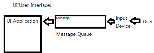 Command (About Message Queue)